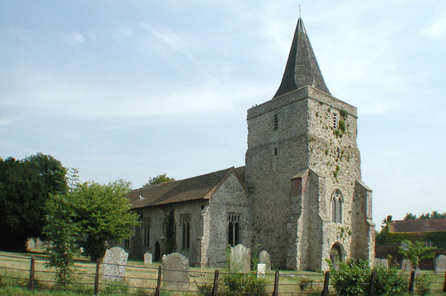 St Margaret, Hothfield, Kent